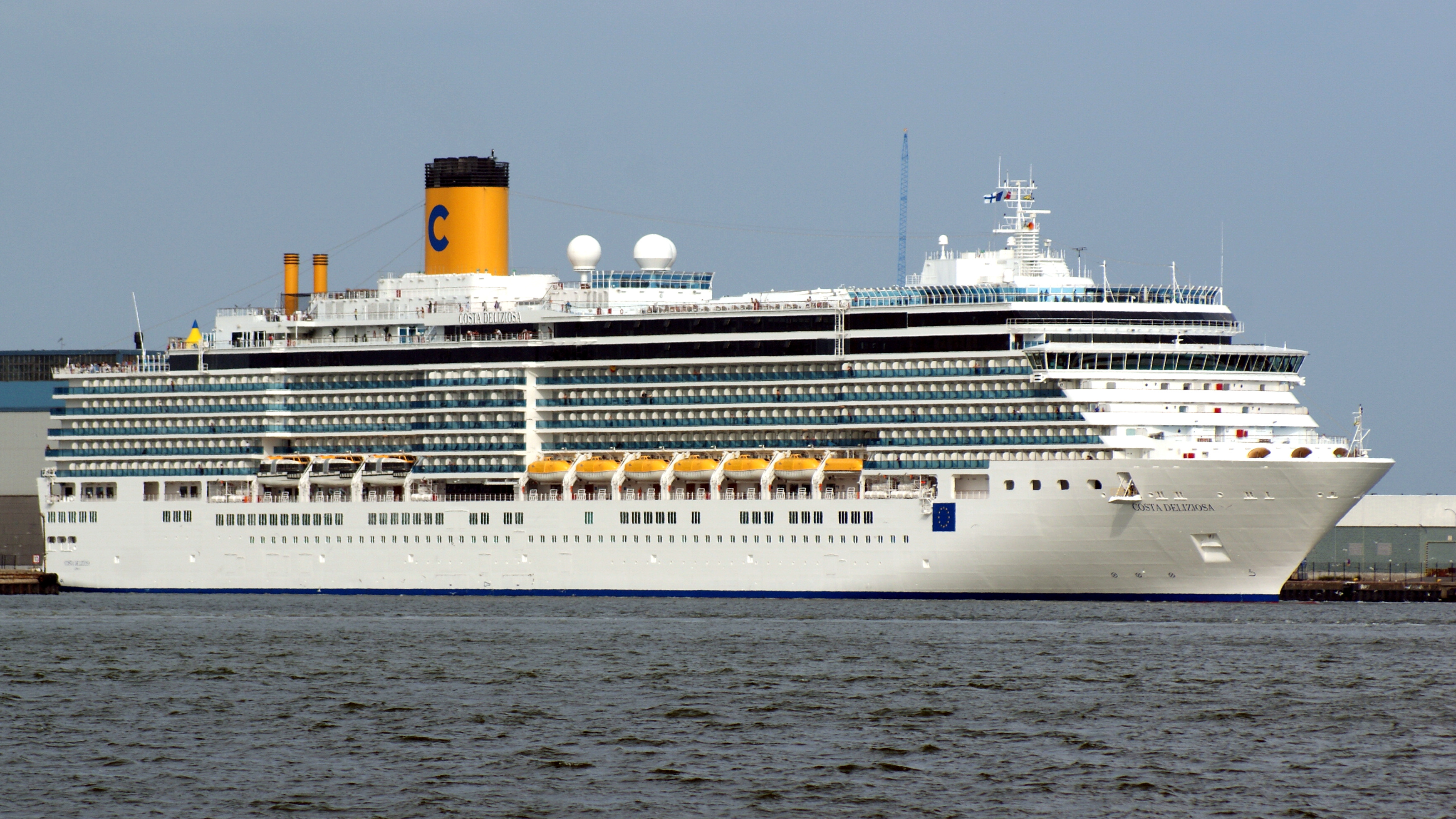 Costa Deliziosa departing Helsinki West Harbour 29.07.2010. Photo is taken from Lauttasaari (Vattuniemi).